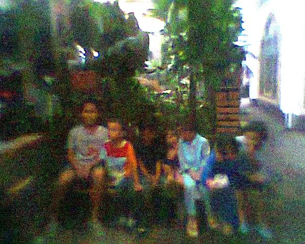 trang-trang kolentrang